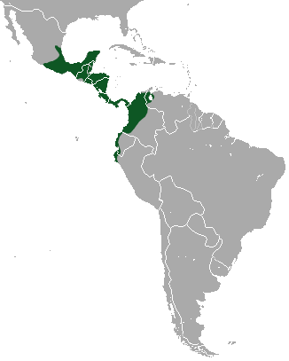 Northern Tamandua (Tamandua mexicana) range